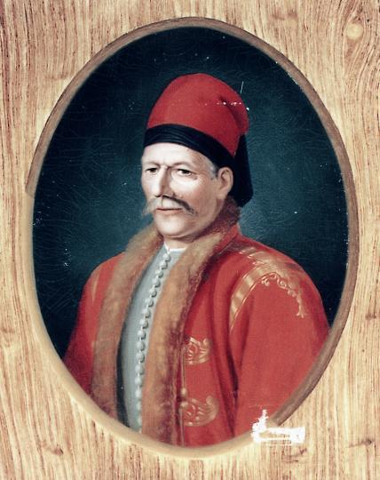 Lykourgos Logothetis – (1772 - 1850) Greek Fighter of the 1821 Revolution Λυκούργος Λογοθέτης